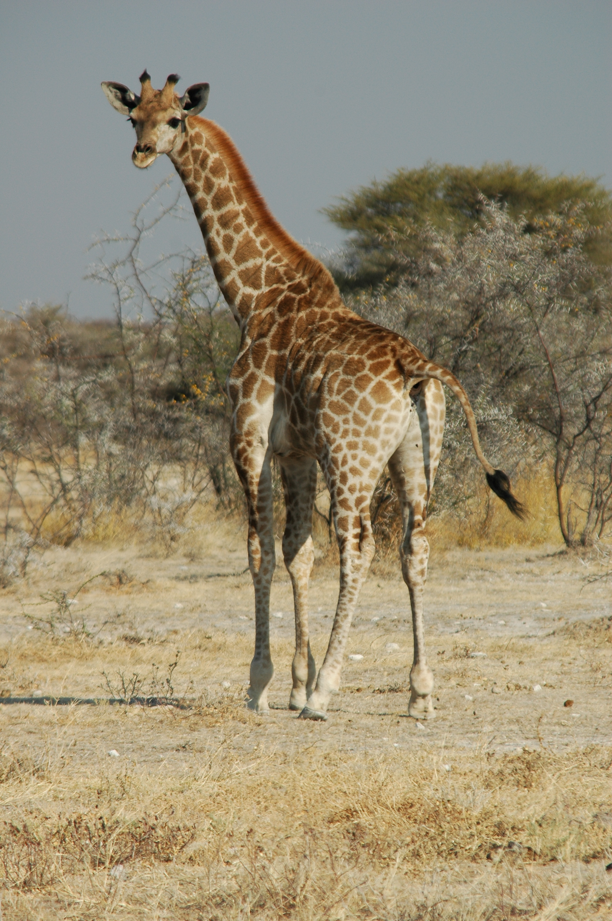 Namibie Etosha National Park Girafe Photographie prise par GIRAUD Patrick